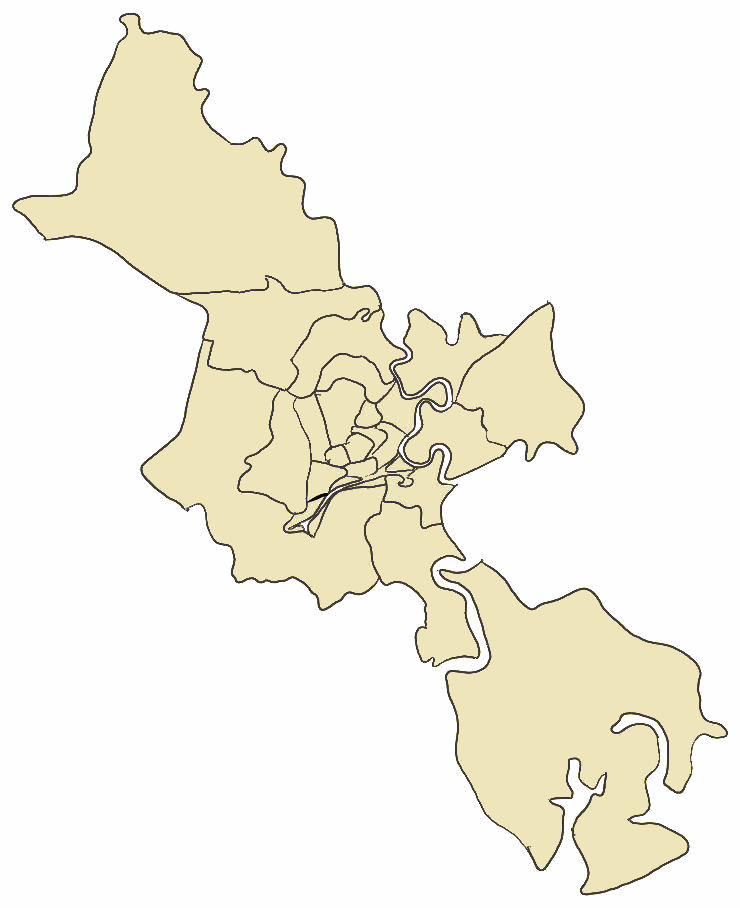 outline of the metropolitan area of HCMC (Ho Chi Minh City, Vietnam) - ISO code VN-F-HC. Keywords: map, outline, city, Ho Chi Minh City, HCMC, HCM.